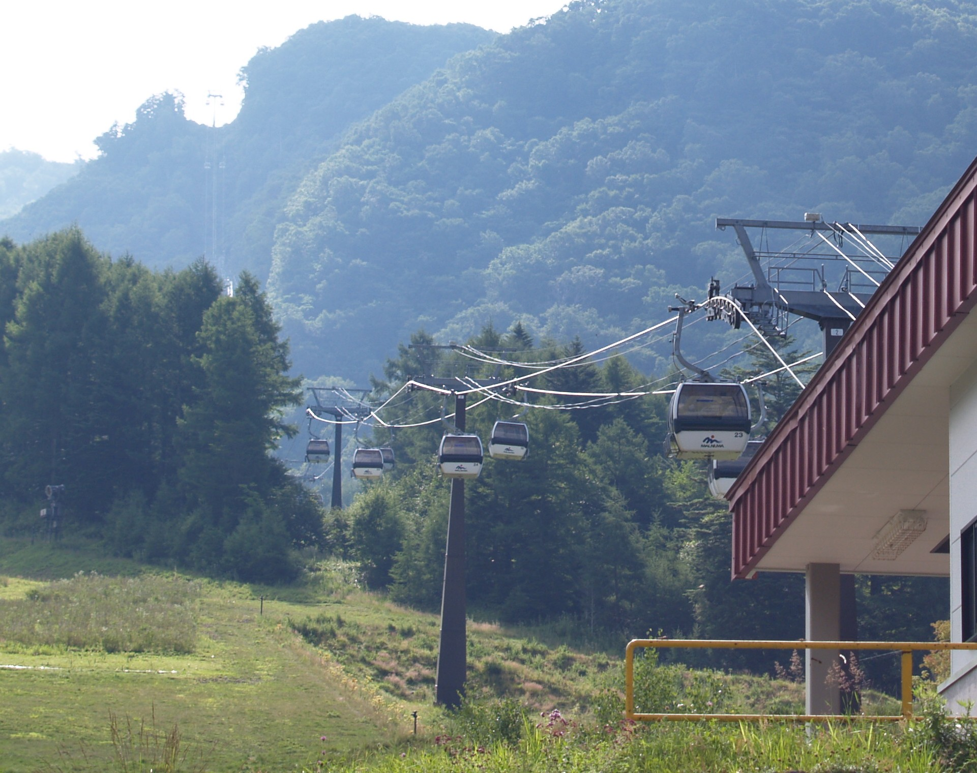 Nikko Shirane Ropeway